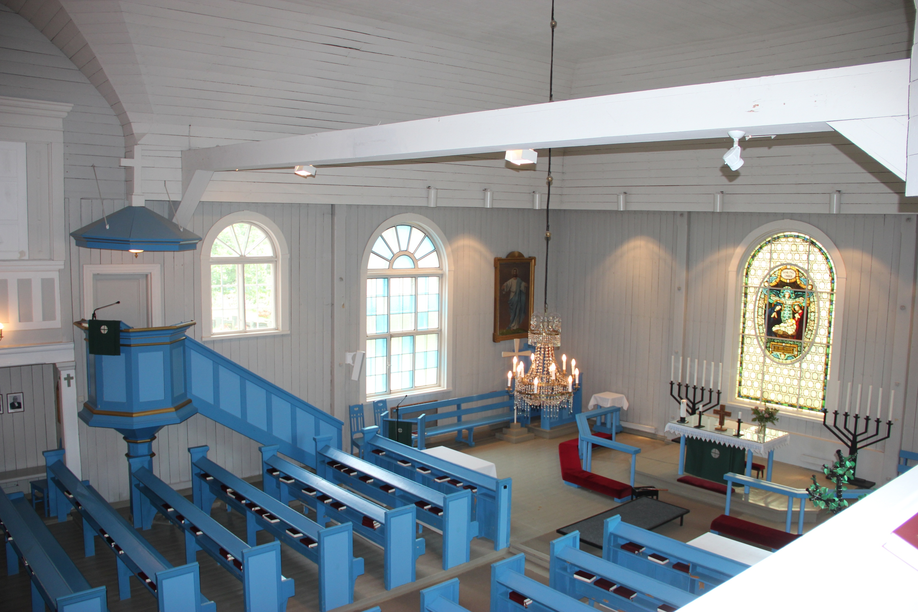 Karkkila church, interior